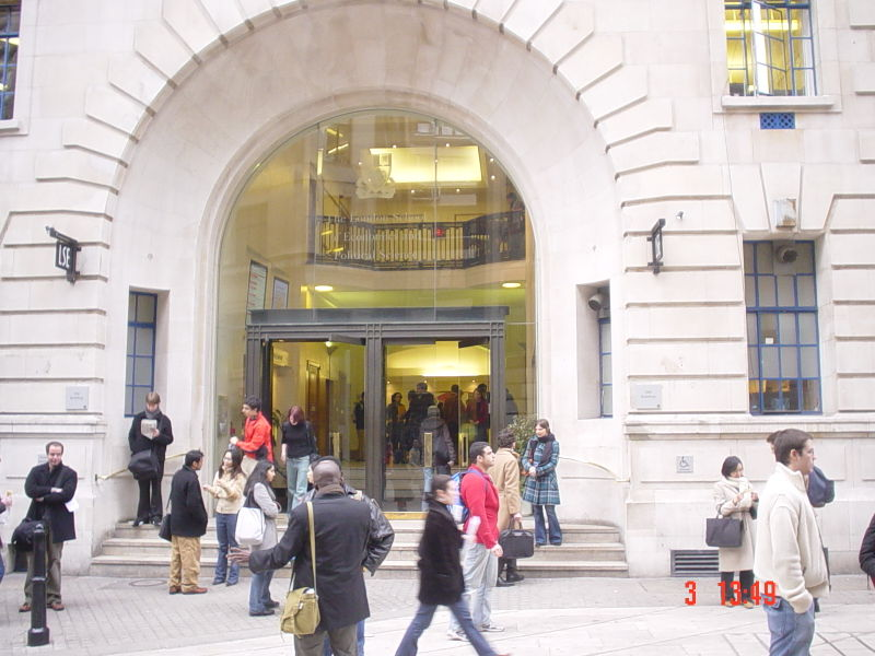 London School of Economics taken by C Ford March 04.